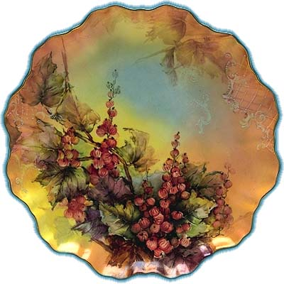 Dessert plate - Redcurrants - A hand-painted plate from the Cabot Commemorative State Dinner Service